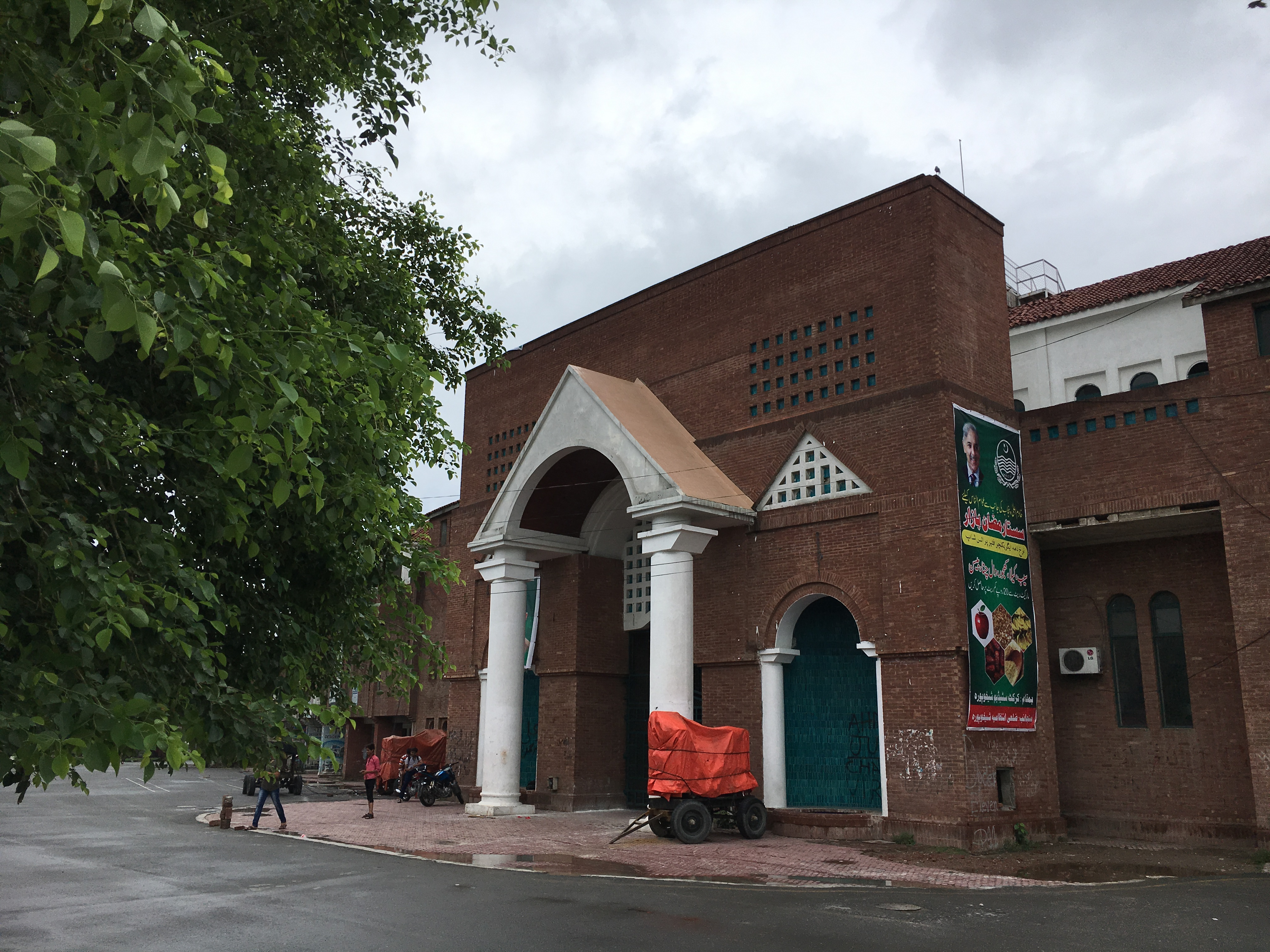 Sheikhupura Stadium now a days in Shabby condition by Basit Nadeem photography